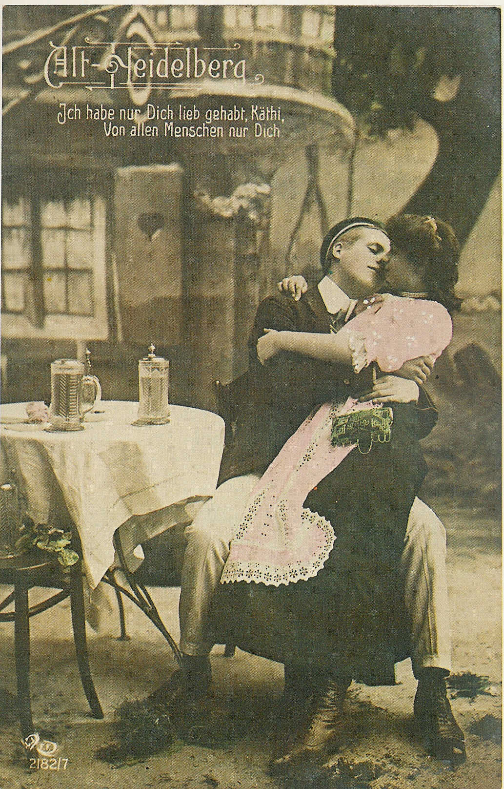 Student postcard of 1907 using a quote from the theatre play "Alt-Heidelberg": I have loved only you, Käthie, Among all people, only you.